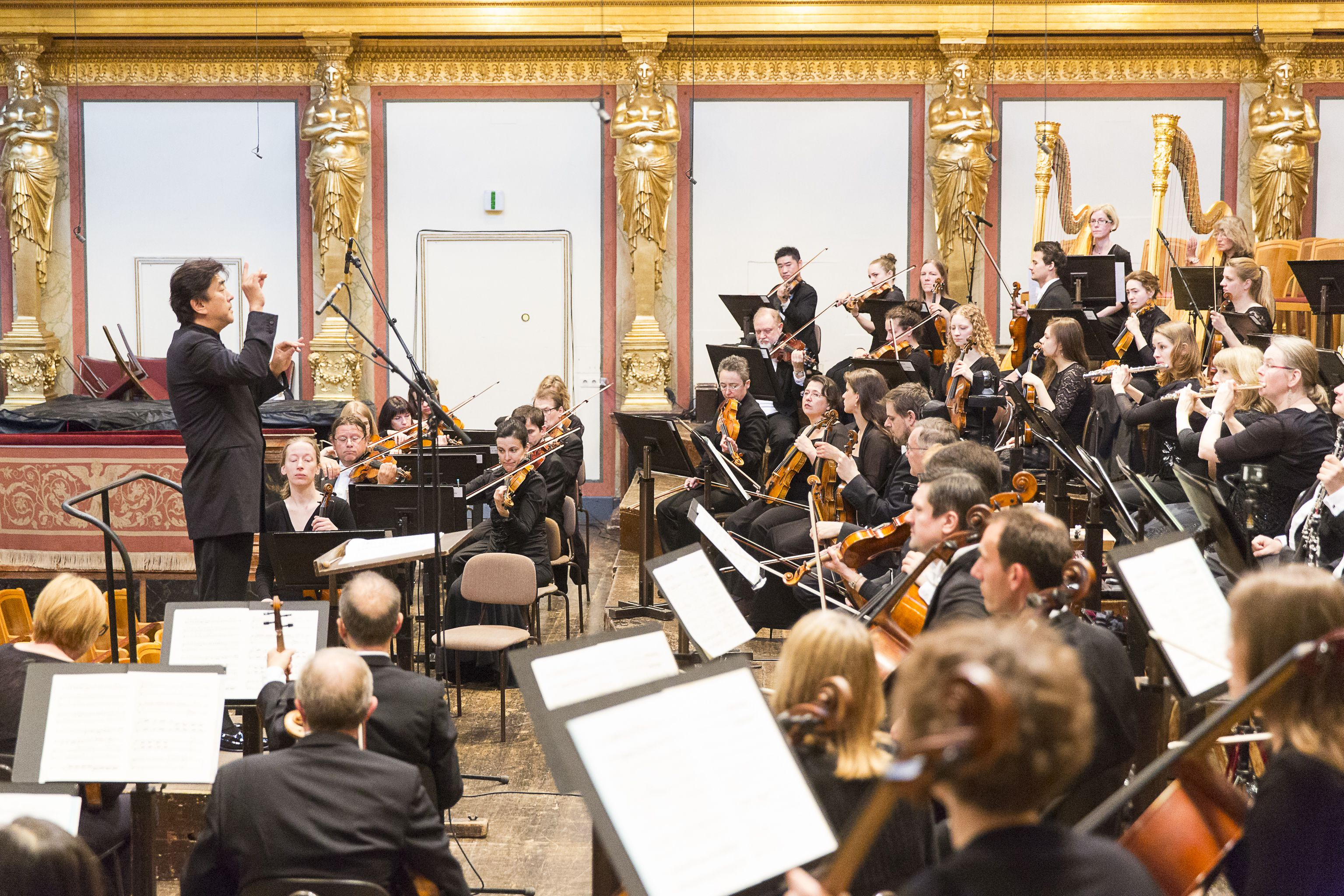 The Tonkunstler Orchestra at the Musikverein Wien